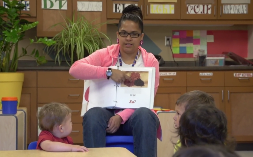 Children learning to read and write totally in Cherokee, at the Kituwah Academy